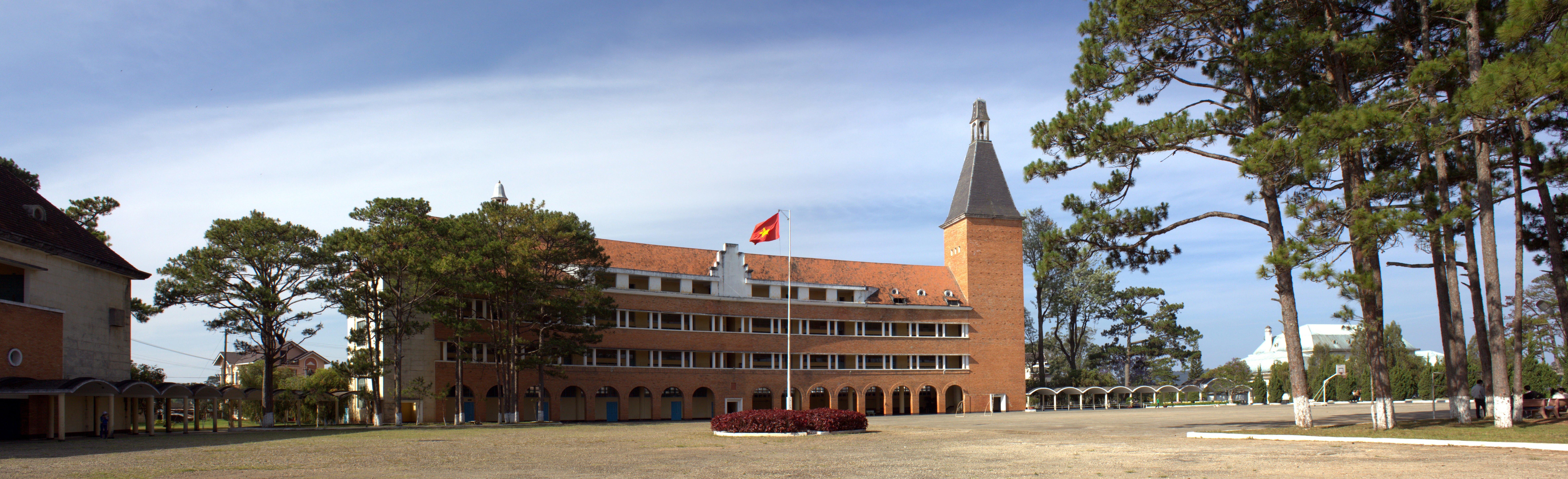 Pedagogical College of Da Lat